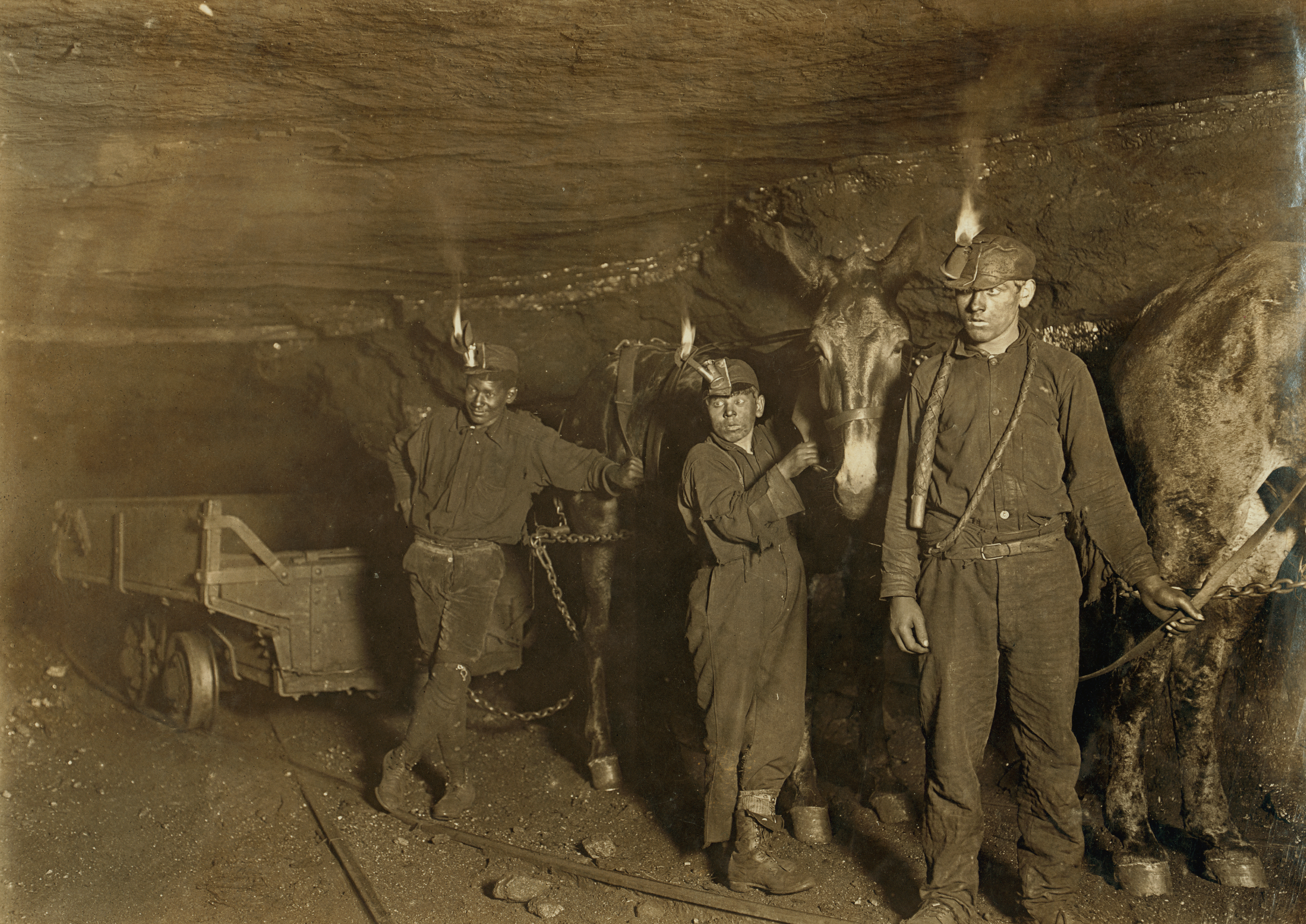 Child coal miners - drivers and mules, Gary, W. Va., mine.